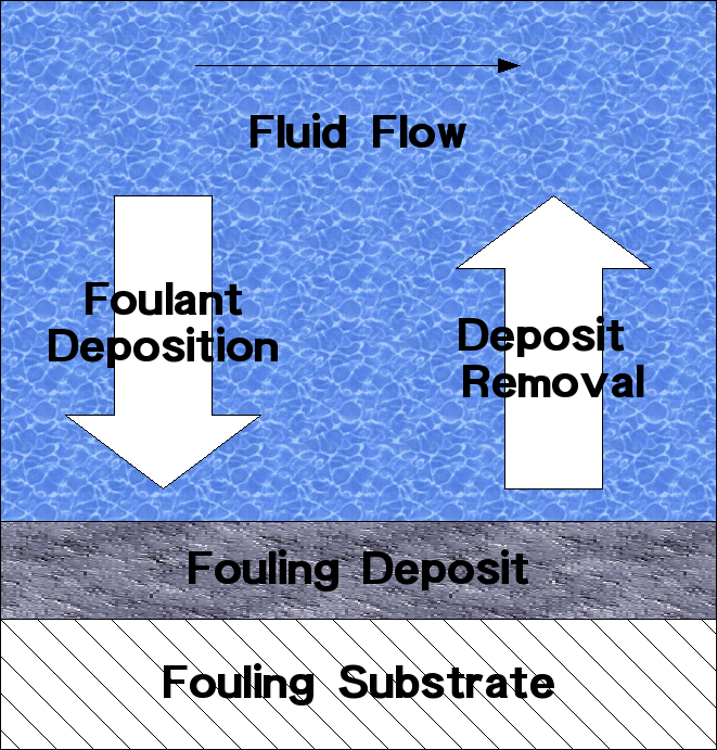 Schematics of a fouling process, consisting of simultaneous deposition and deposit removal. Created by Stan J. Klimas using